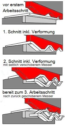 Technology of expanded metal